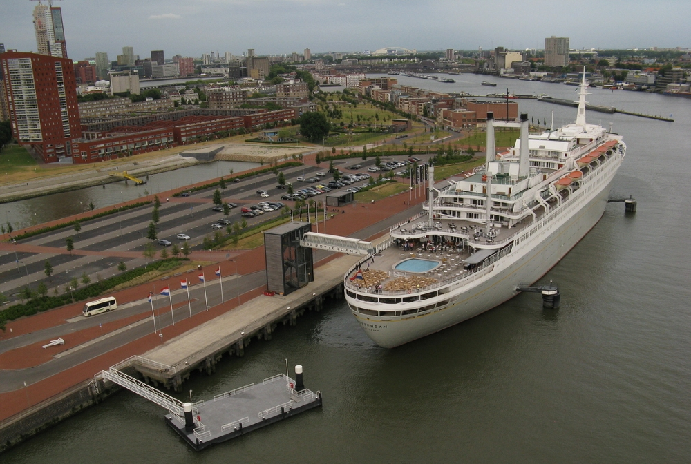 Aerial image of the Rotterdam at Katendrecht, Rotterdam, NL